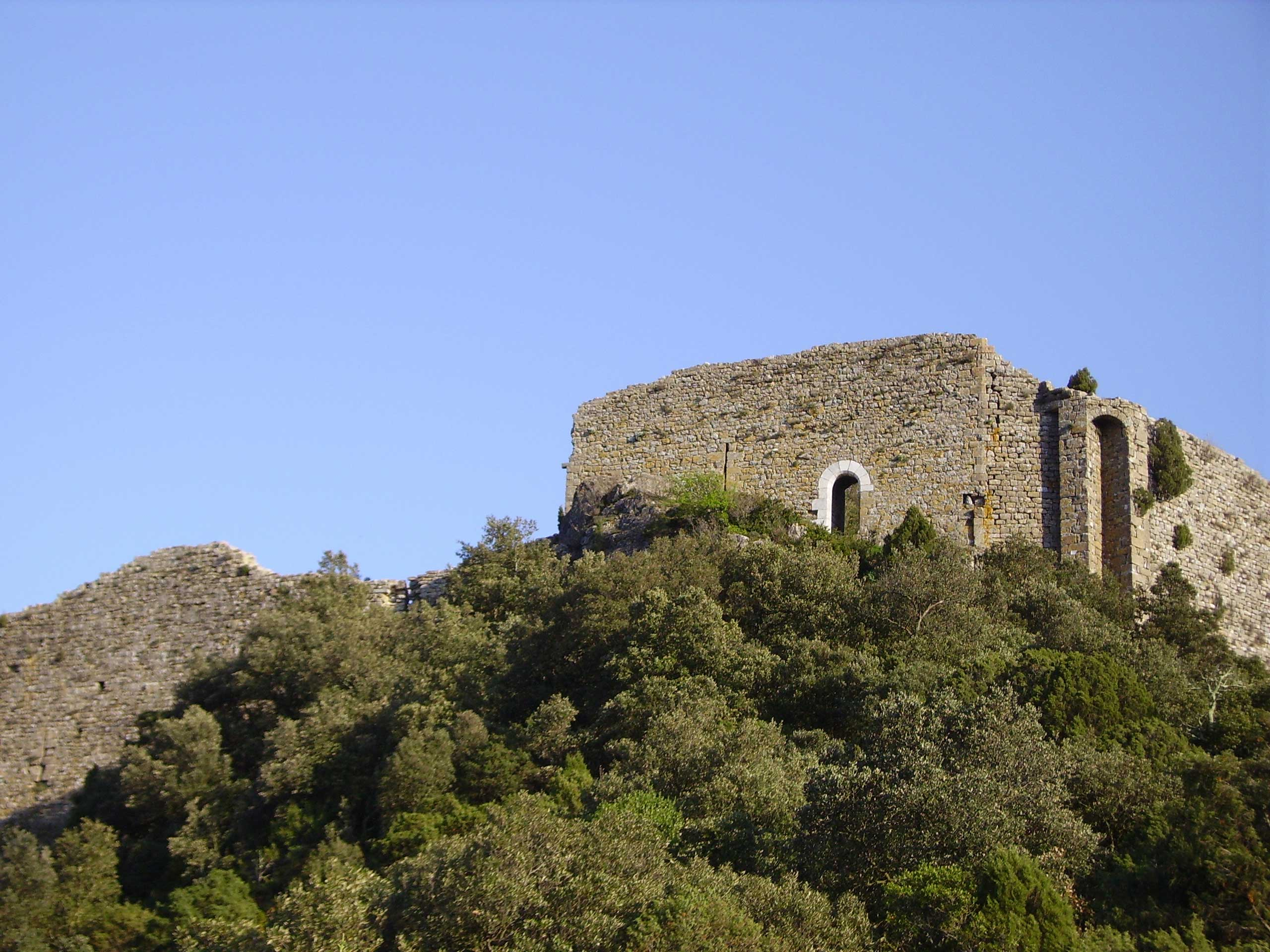 The Noth-West angle of the castle of Termes.